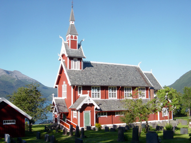 Rauma and the Holm kirke by architect Karl Norum